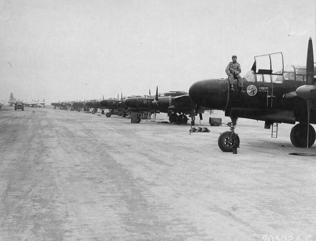 548th Night Fighter Squadron P-61 Black Widows Central Field Iwo Jima